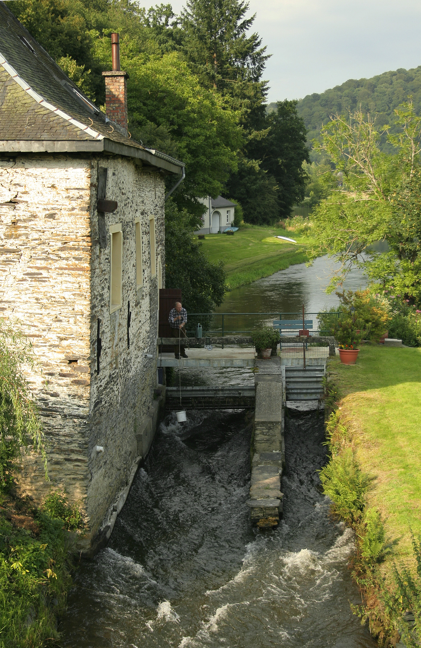 Cugnon (Belgium), the old watermill on the Semois river (1695).